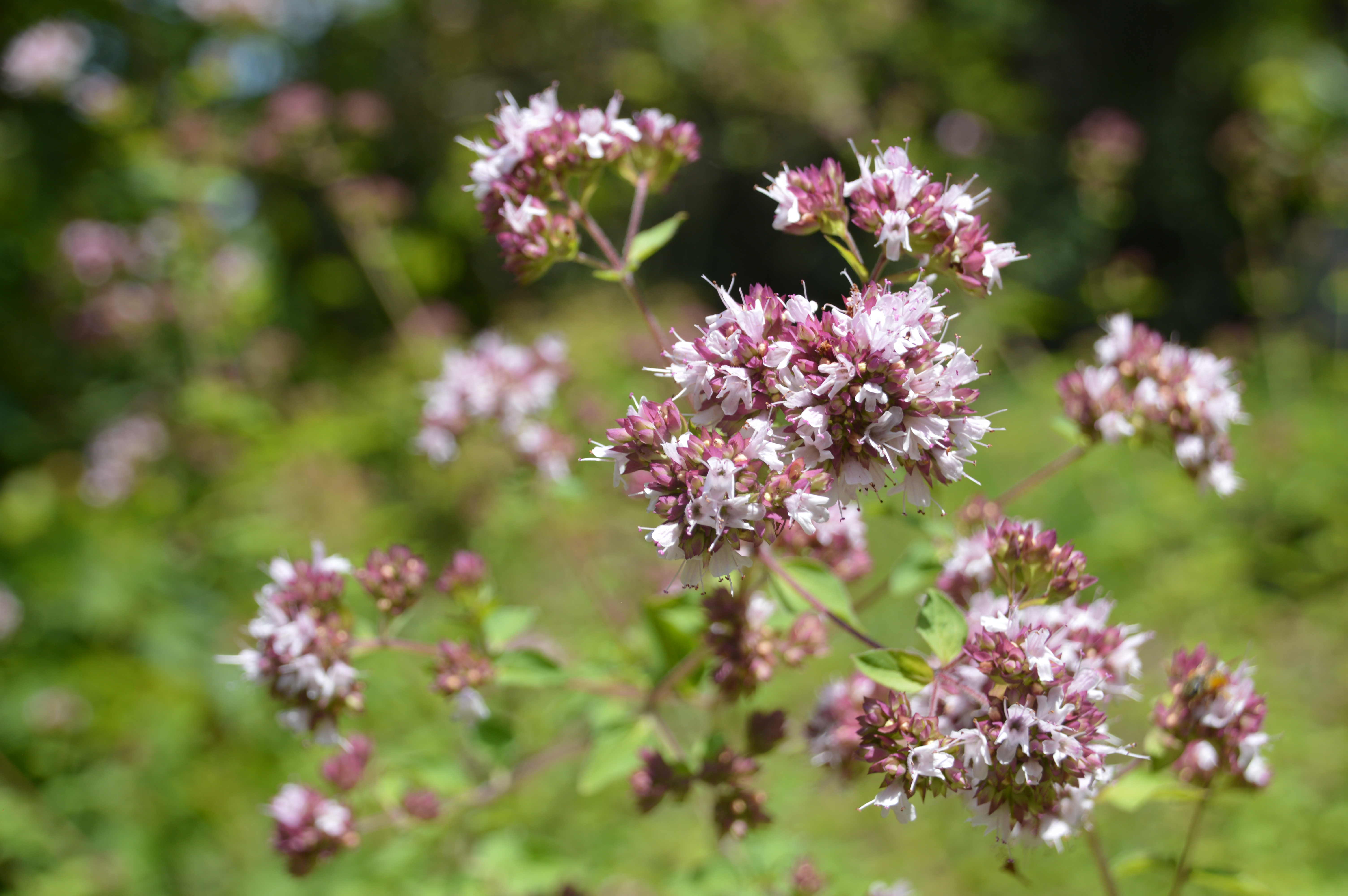 Marjoram (Origanum majorana) inflorescence.